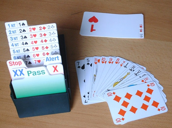 At left is a bidding box used in Contract bridge. At right, a player's hand of cards (French deck). Behind, the bid of 1♥ (French standard System).